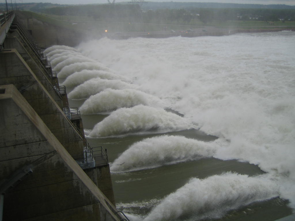 Gavins Point Dam releases 150,000 cubic feet per second of water June 14, 2011, a record that more than doubles the previous high release. (U.S. Army Corps of Engineers photo by Jay Woods)